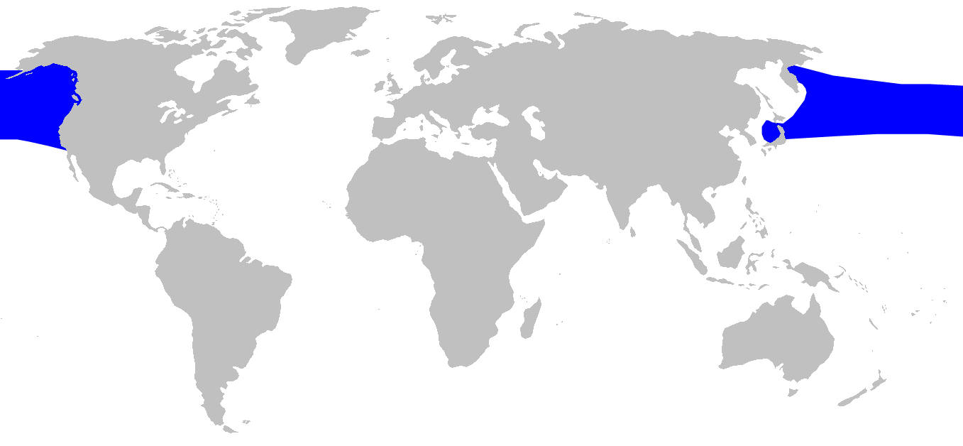 Distribution of Mesoplodon stejnegeri